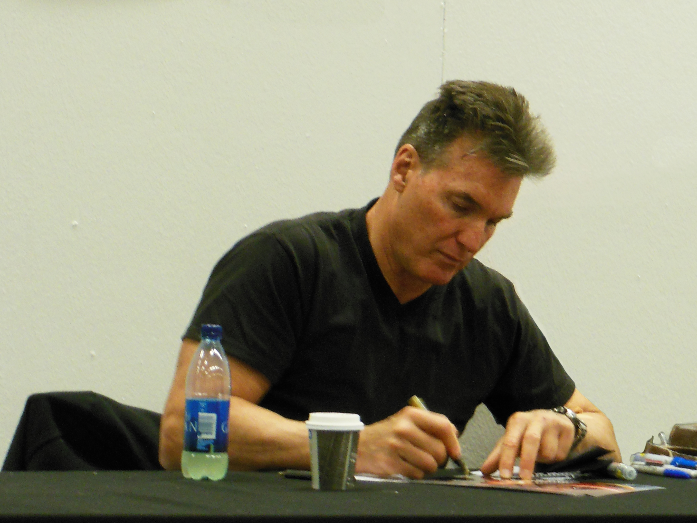 Sam J. Jones at the" Scandinavian Sci-Fi, Game & Film Convention" in Svenska Mässan, 7 april 2013.